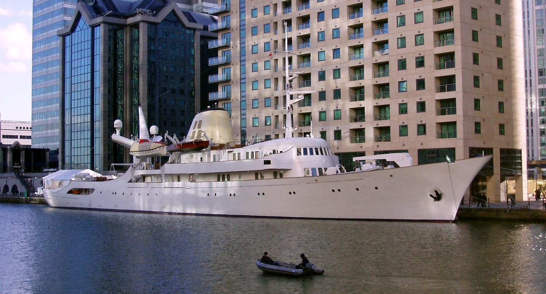 Christina O is one of the world's longest private motor yachts at 325 feet 3 inches (99 m). She was originally a Canadian River-class frigate called HMCS Stormont and was launched in 1943.